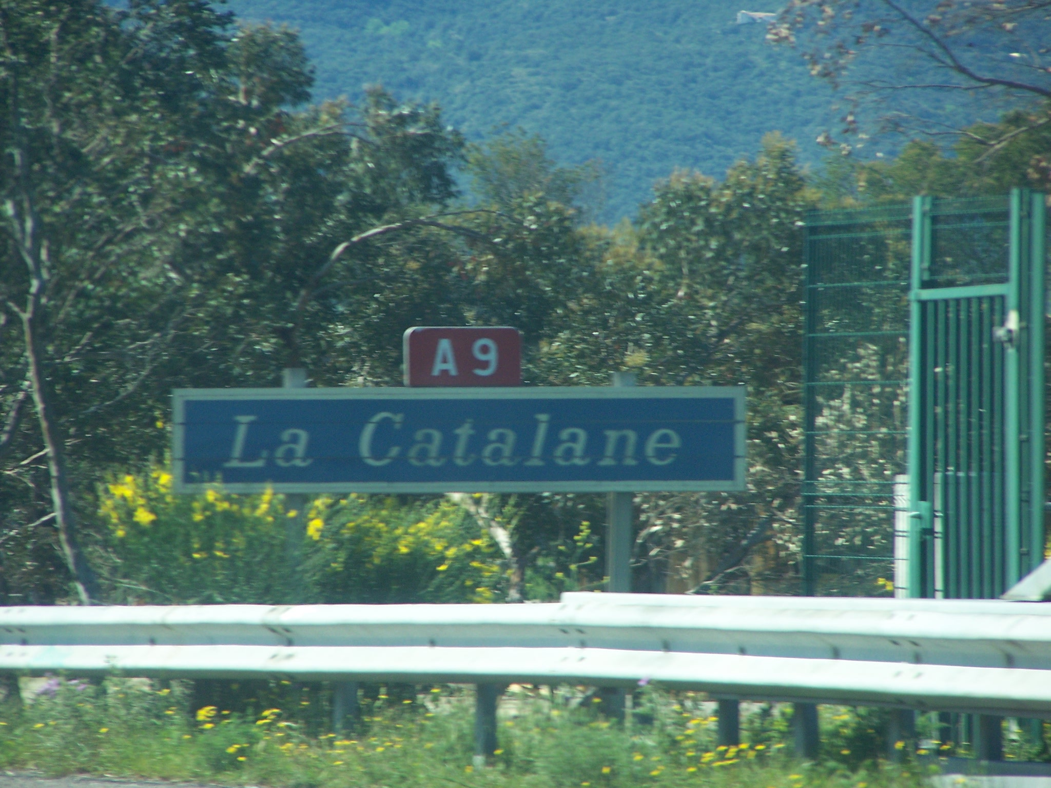 French Autoroute A9 also called on its second part (from Narbonne to Le Perthus) : la Catalane (from the name of the region Catalogne).